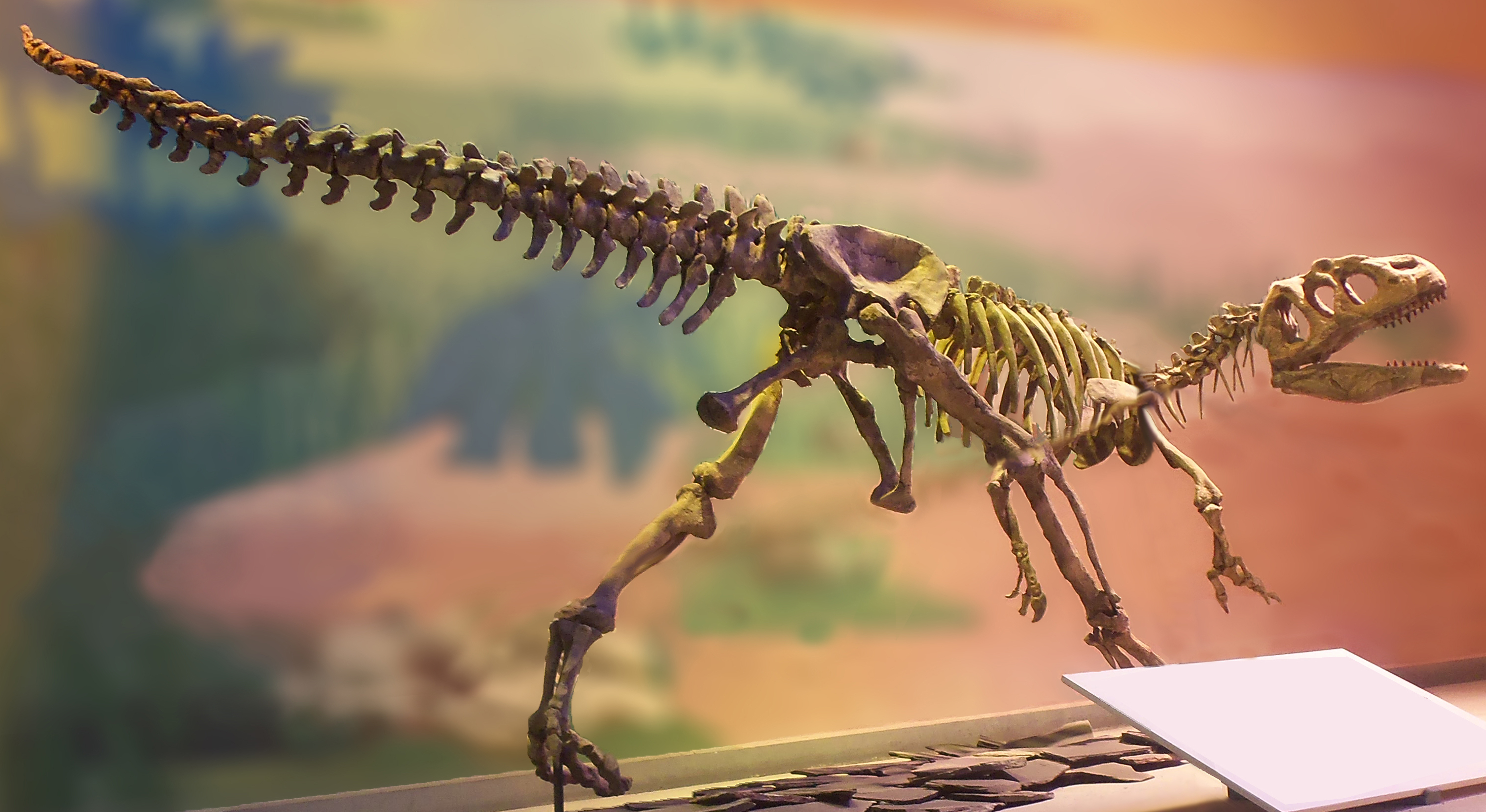 Skeleton of Piatnitzkysaurus floresi.